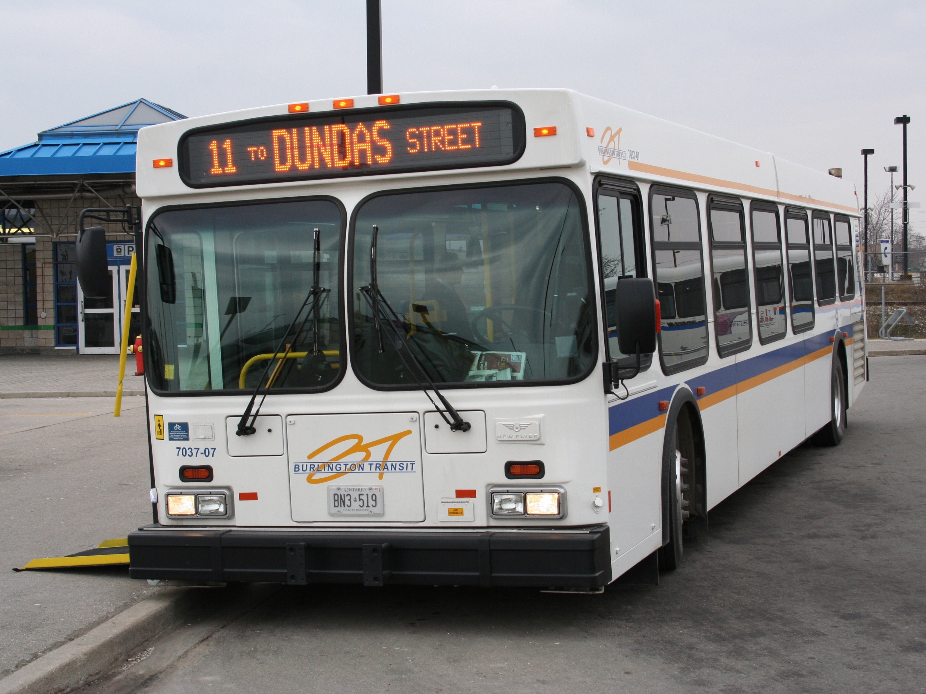 Burlington Transit bus 7037-07